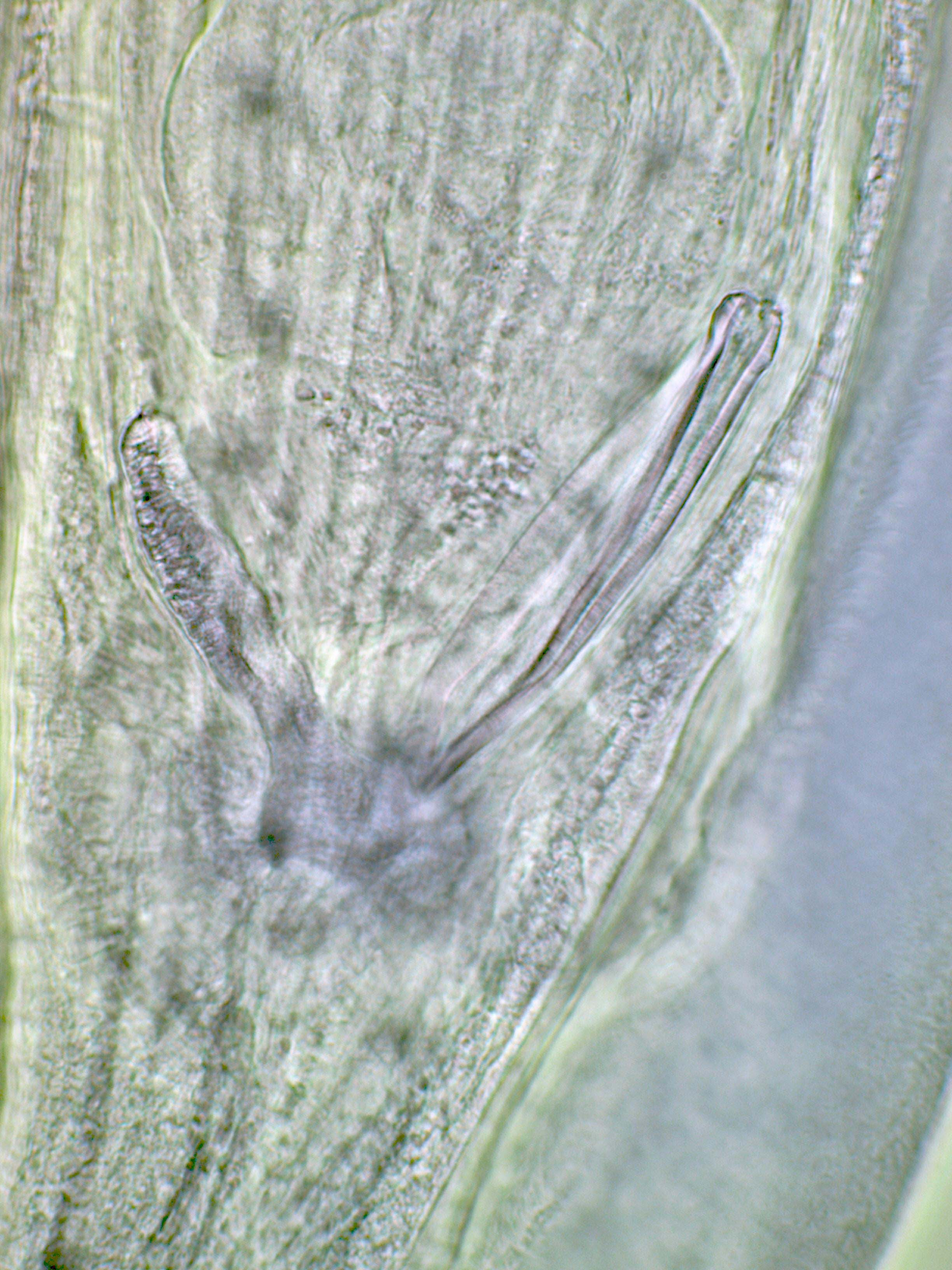 Gongylonema pulchrum (Nematoda), male, posterior end, right spicule and gubernaculum.